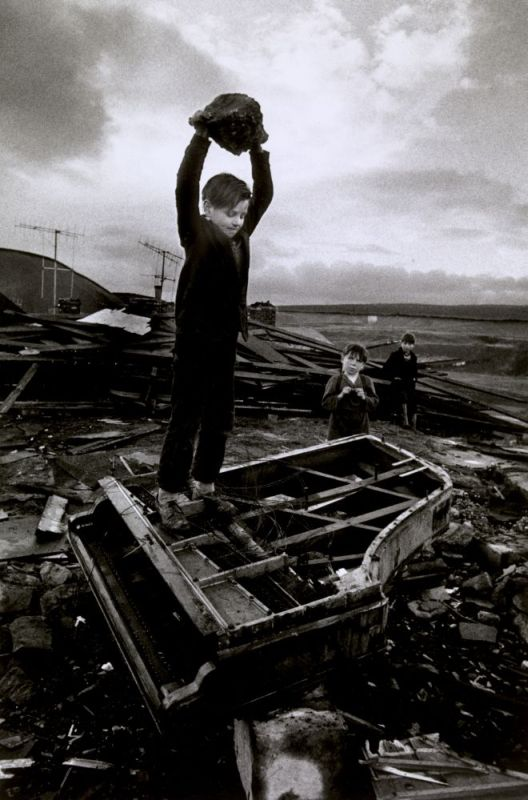 Boy destroying piano at Pant-y-Waen, South Wales. By Philip Jones Griffiths. 1961Cymraeg: Bachgen yn dinistrio piano ym Mhant-y-Waen, De Cymru. Gan Philip Jones Griffiths. 1961